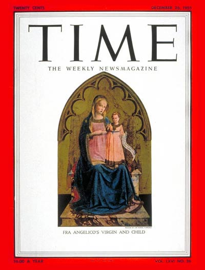 Time magazine, Volume 66 Issue 26. Front cover is a photograph of Fra Angelico's Virgin and Child